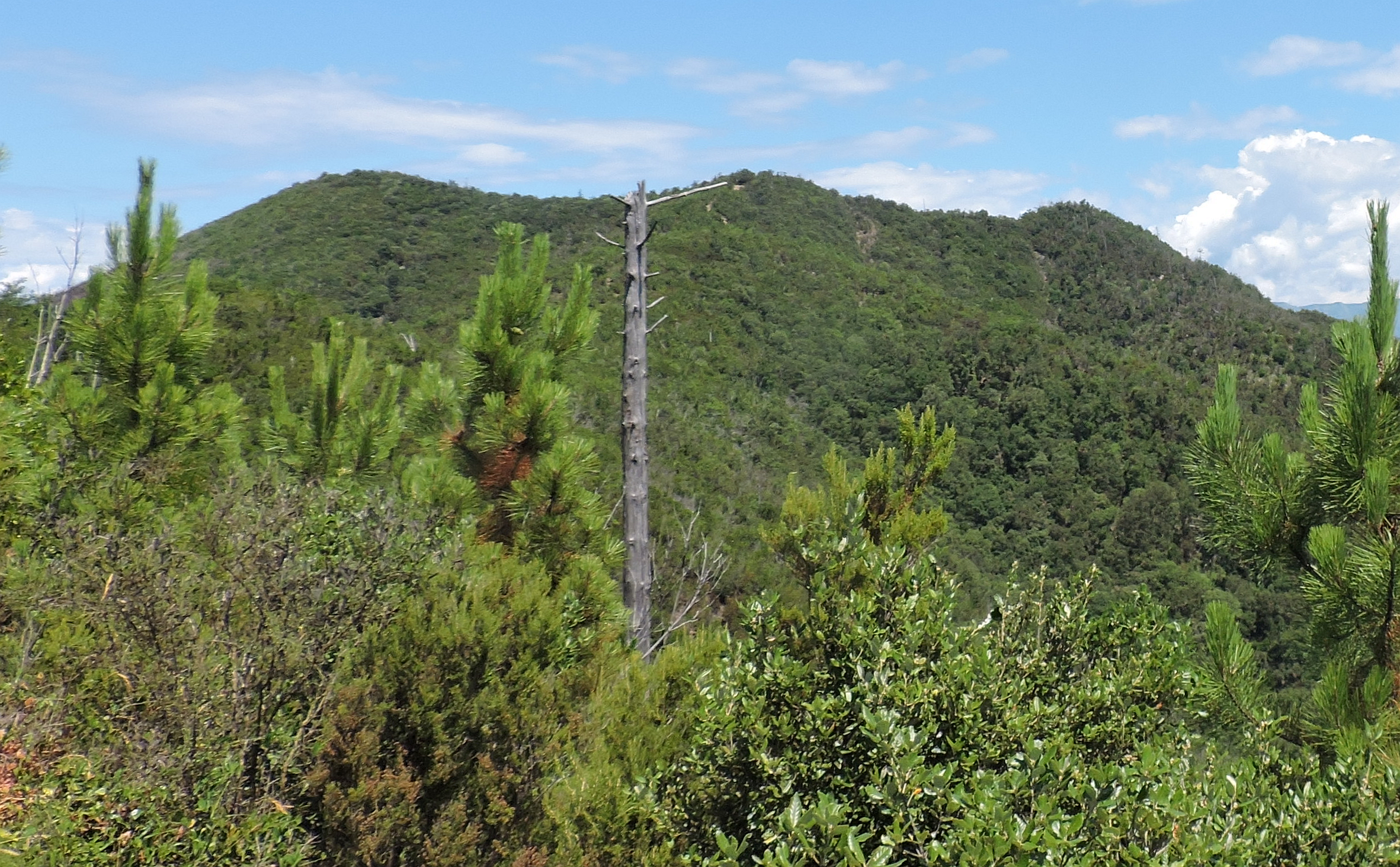 Monte Moneglia from Monte Comunaglia (Liguria, Italy)